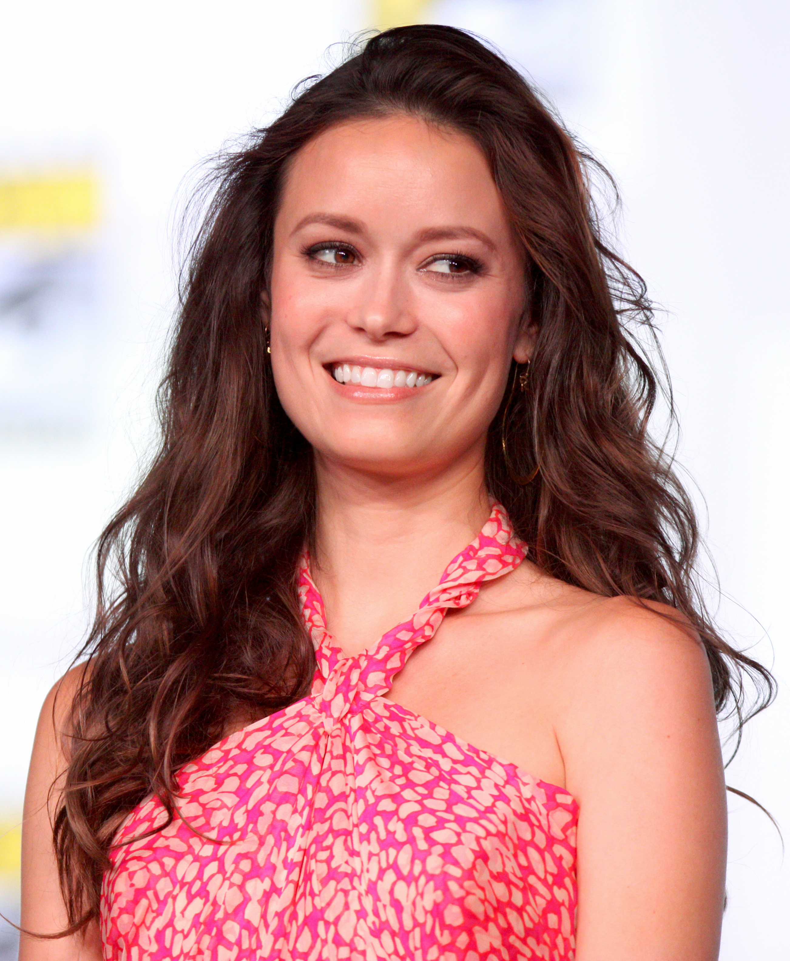 Summer Glau at the 2012 Comic-Con in San Diego.